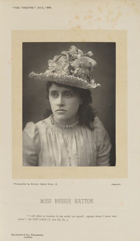 Portrait of the actress, journalist and suffrage campaigner Bessie Hatton. Published in 'The Stage' by Eglington & Co. Photographed by Herbert Rose Barraud. Carbon print. NPG Ax9371 (claimed Copyright National Portrait Gallery. NPG Ax9371 Photographer died in 1896)